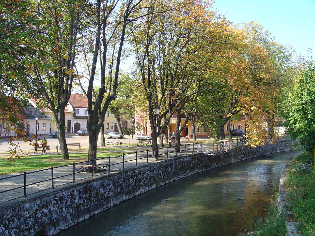 Square of Velka